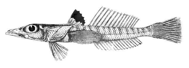 Bembrops platyrhynchus